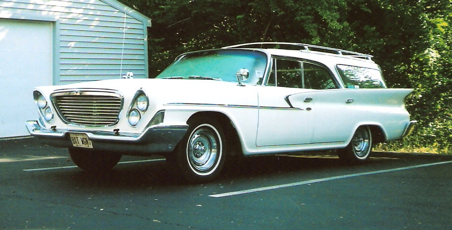 1961 Chrysler Newport Town & Country station wagon I photographed at the fourth annual International Station Wagon Club convention in Louisville, Kentucky in June 2007.